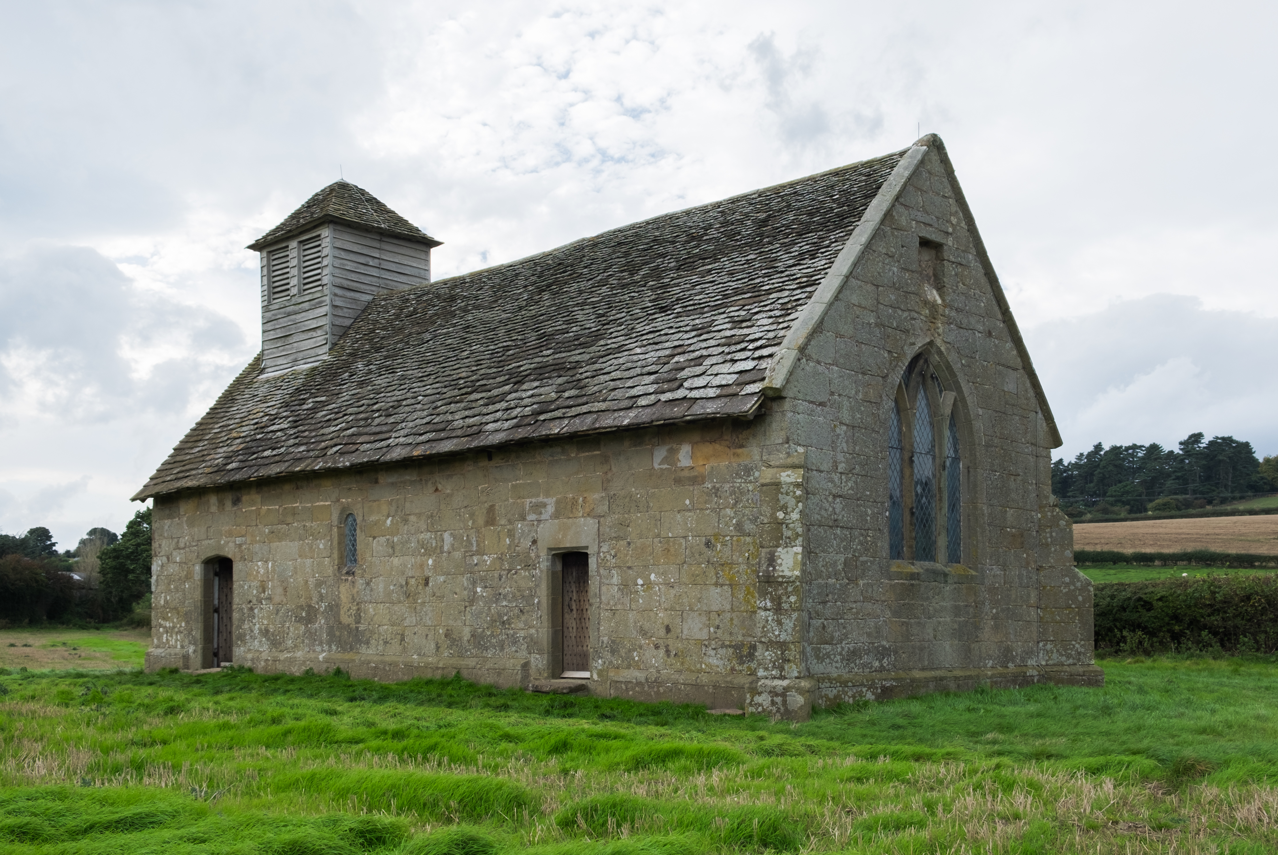 Langley Chapel, Shropshire. This chapel, rebuilt around 1564, is a Grade I Listed Building in England.